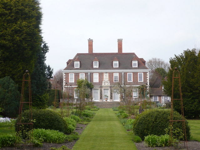 The Salutation seen from the south east. The house stands in gardens of 3.5 acres, originally designed by Lutyens and Jekyll. It is being restored to its former glory and it opens to the public.